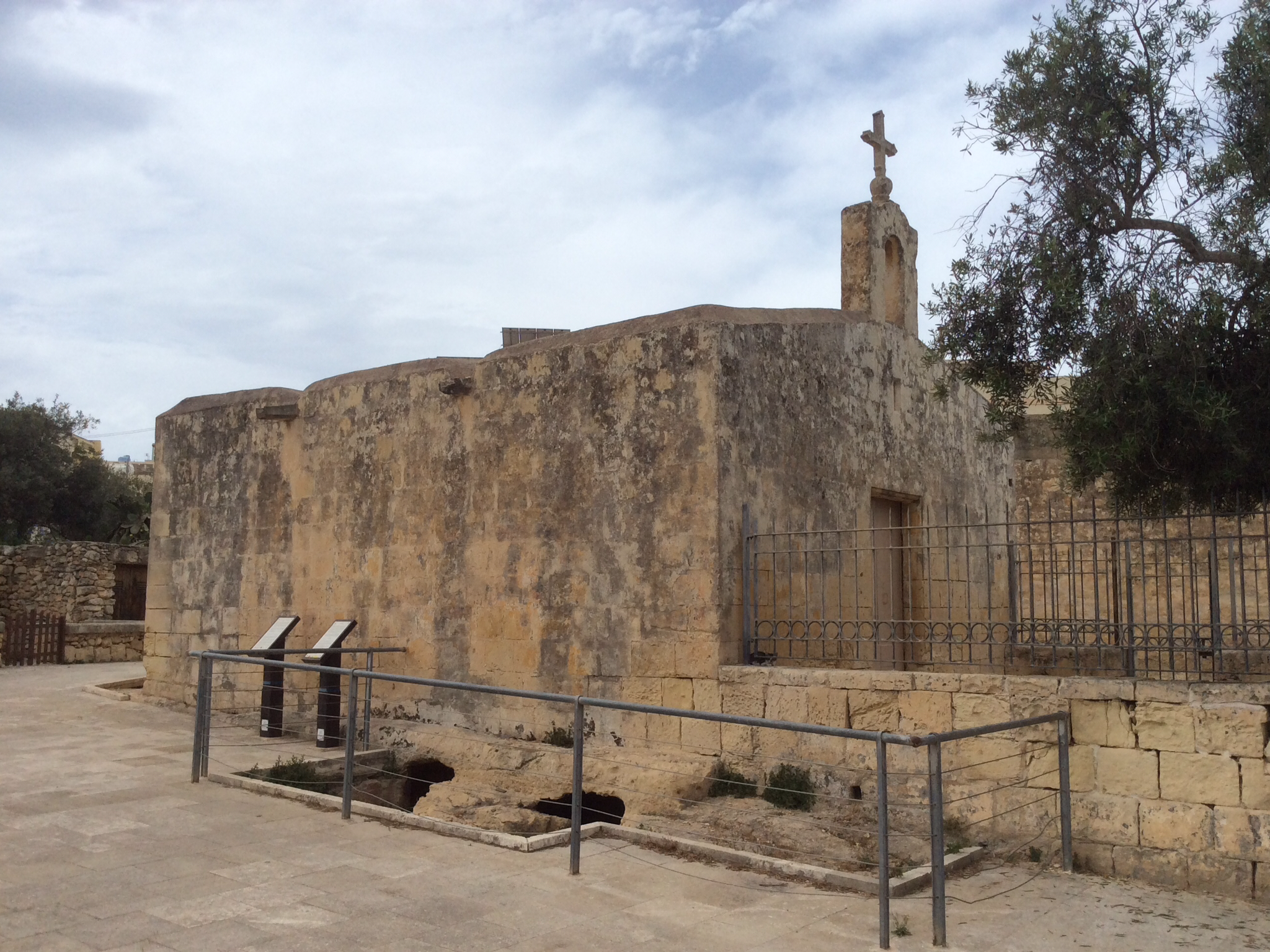 Maltese vernacular chapel